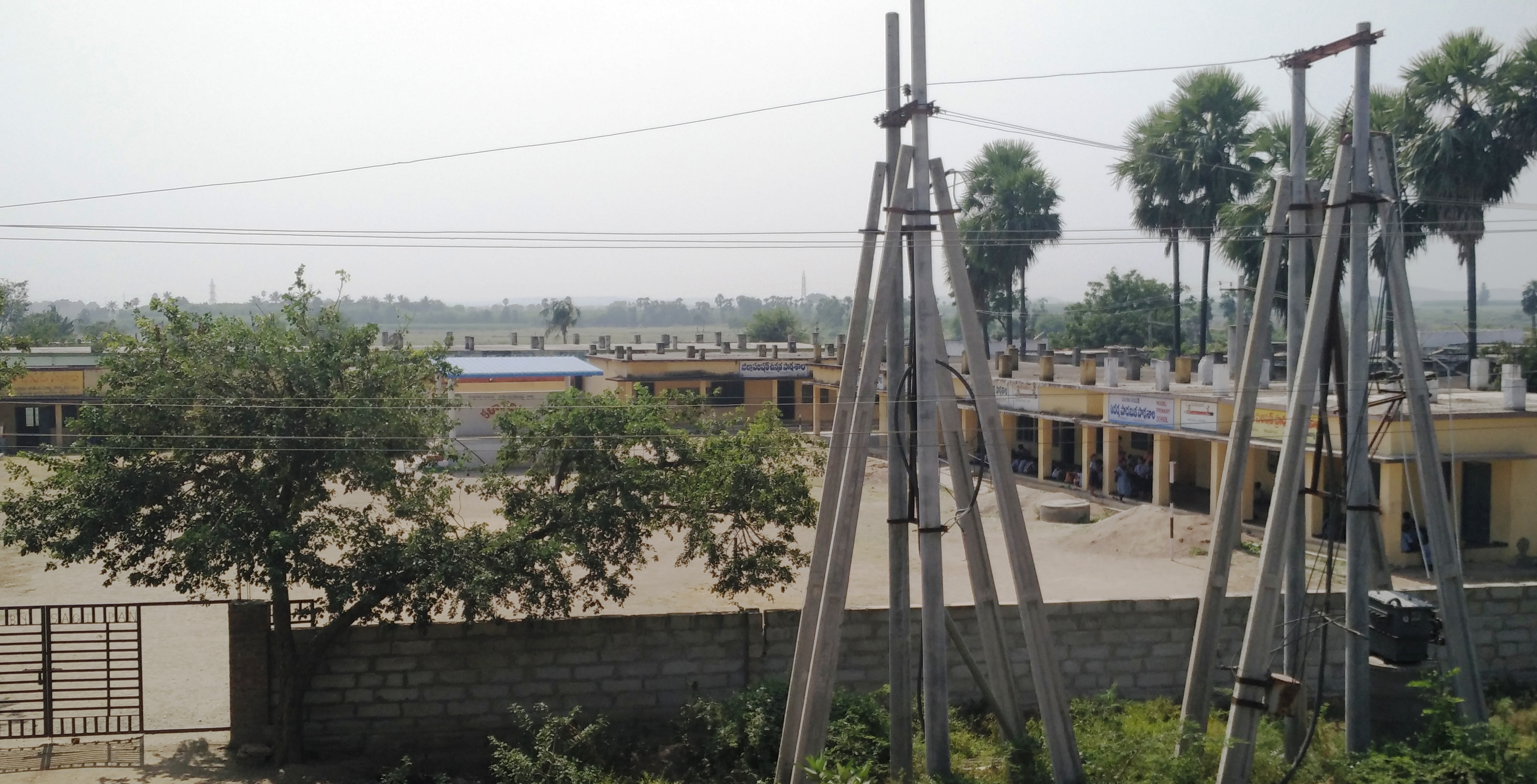 ZP High School in Gouravaram village, Jaggayyapet Mandal, Krishna District, A.P